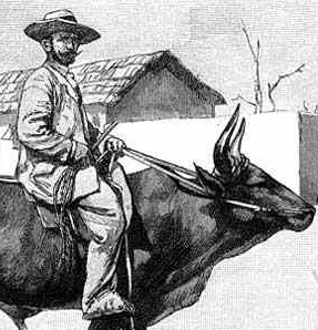 Max Buchner was a german explorer of Africa